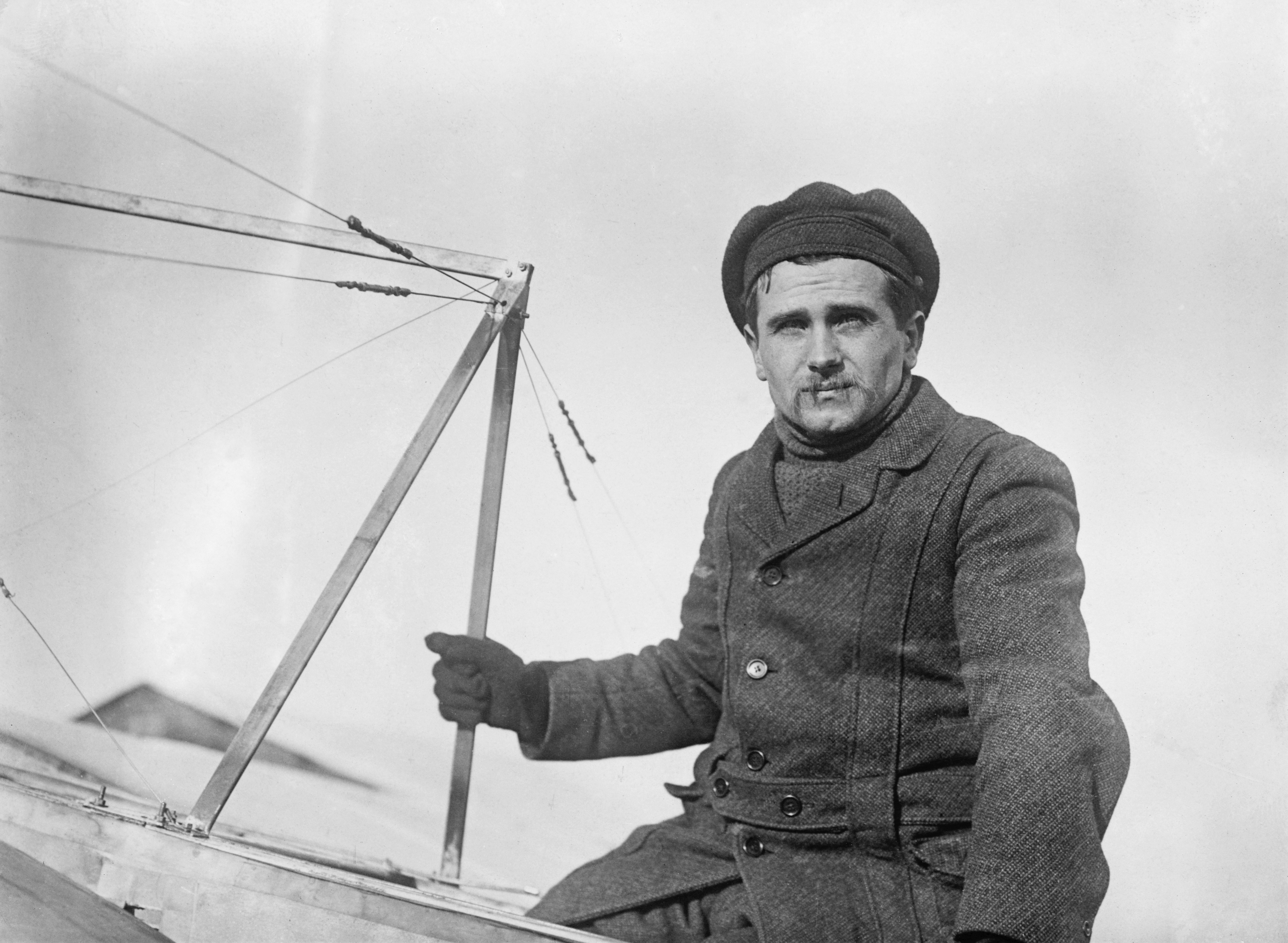 Le Martin